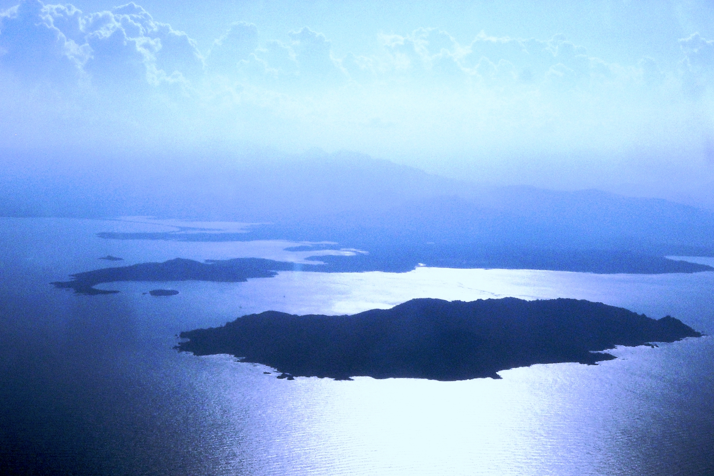 Molara island, just behind Capo Coda Cavallo. Sardinia Italy